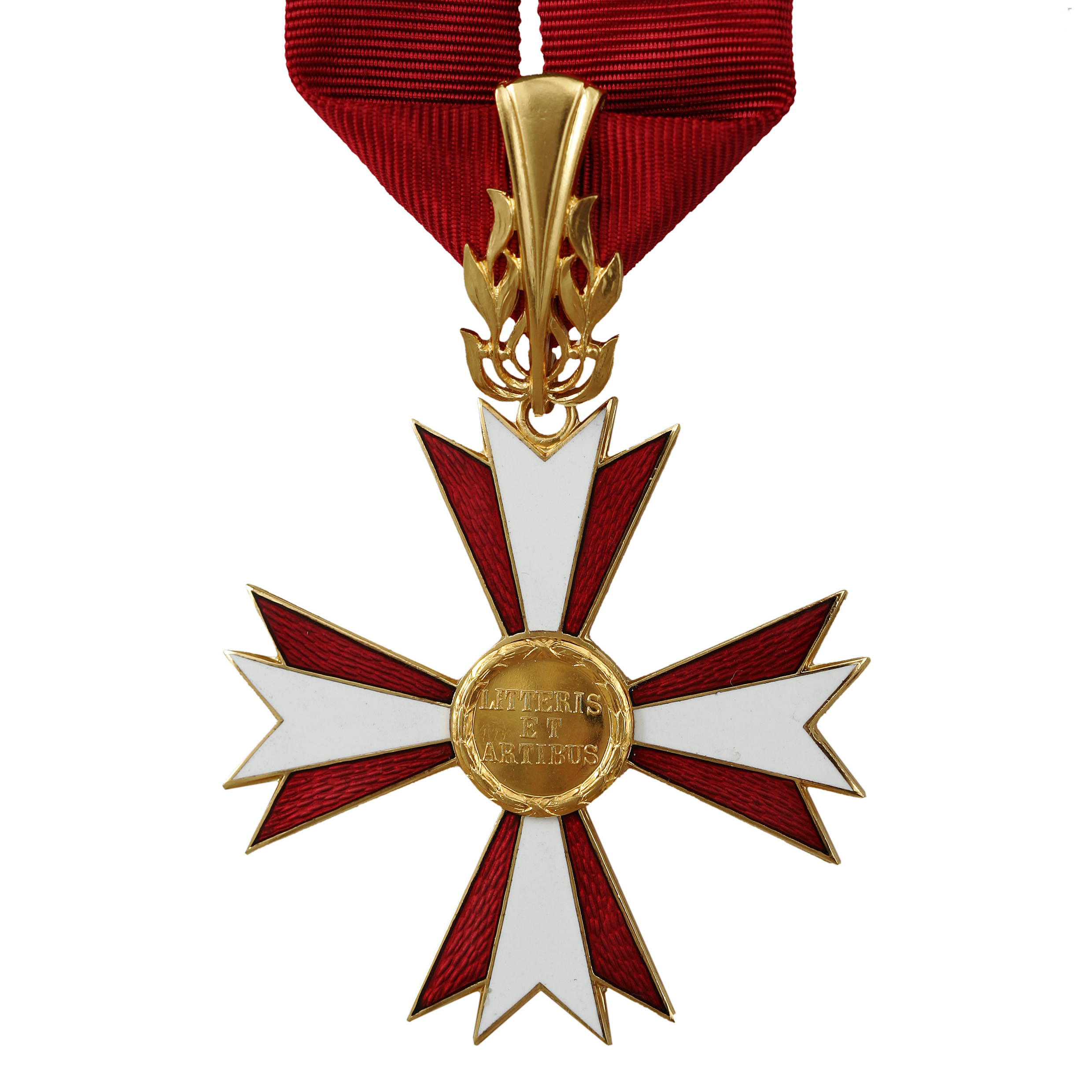 Austrian Cross of Honour for Science and Art